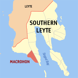 Map of Southern Leyte showing the location of Macrohon